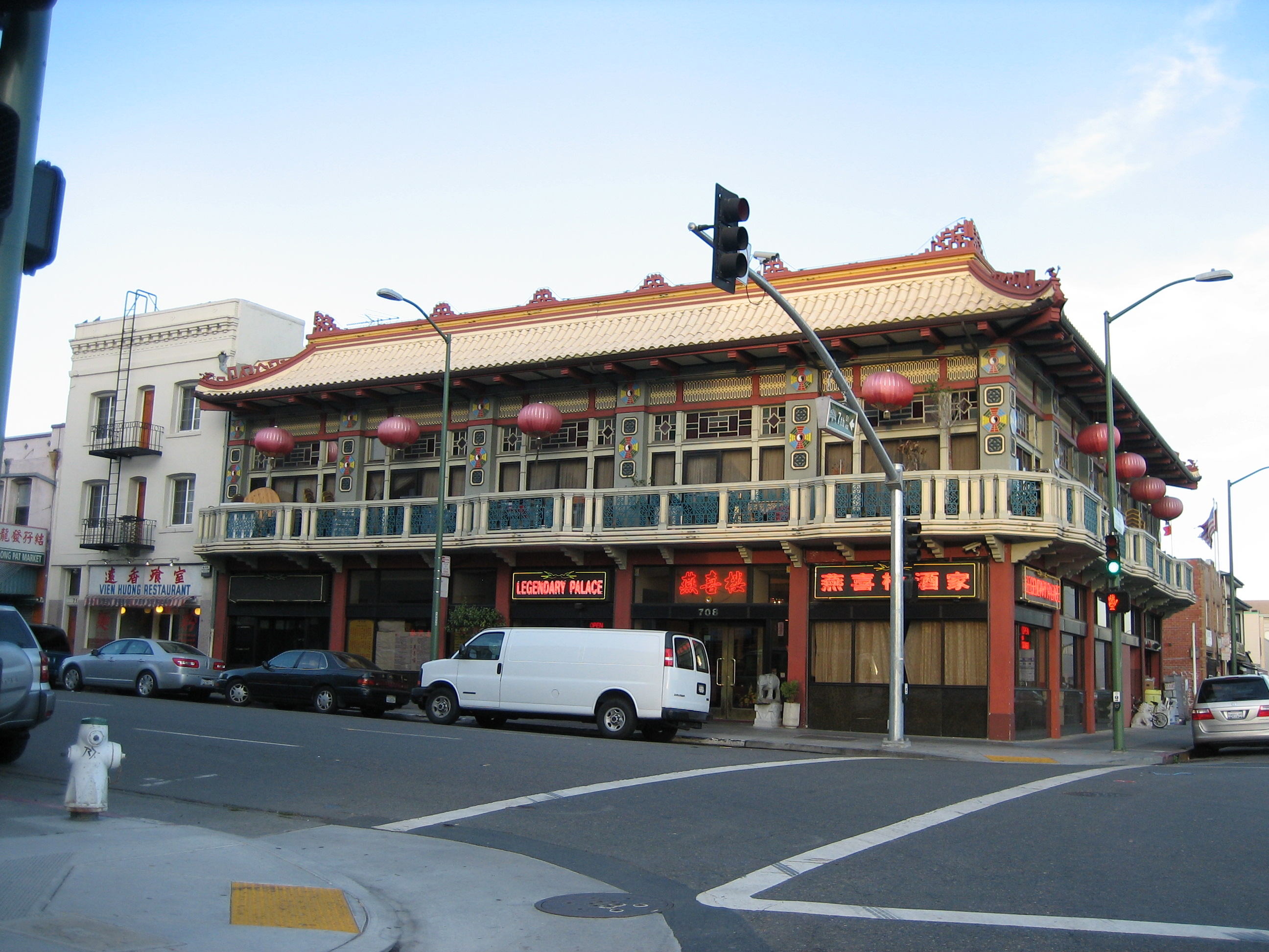 Uploading image of Chinatown.